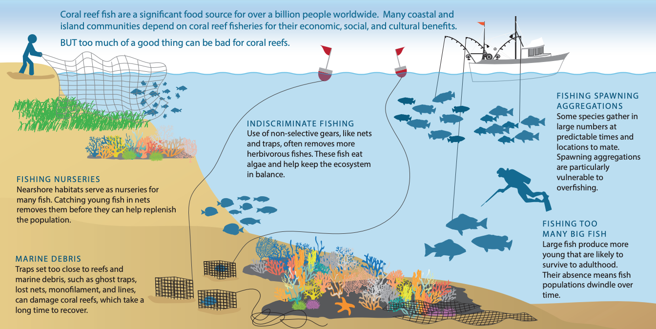 Overfishing threats to coral reefs. Coral reef fish are a significant food source for over a billion people worldwide. Many coastal and island communities depend on coral reef fisheries for their economic, social, and cultural benefits. But too much of a good thing can be bad for coral reefs.